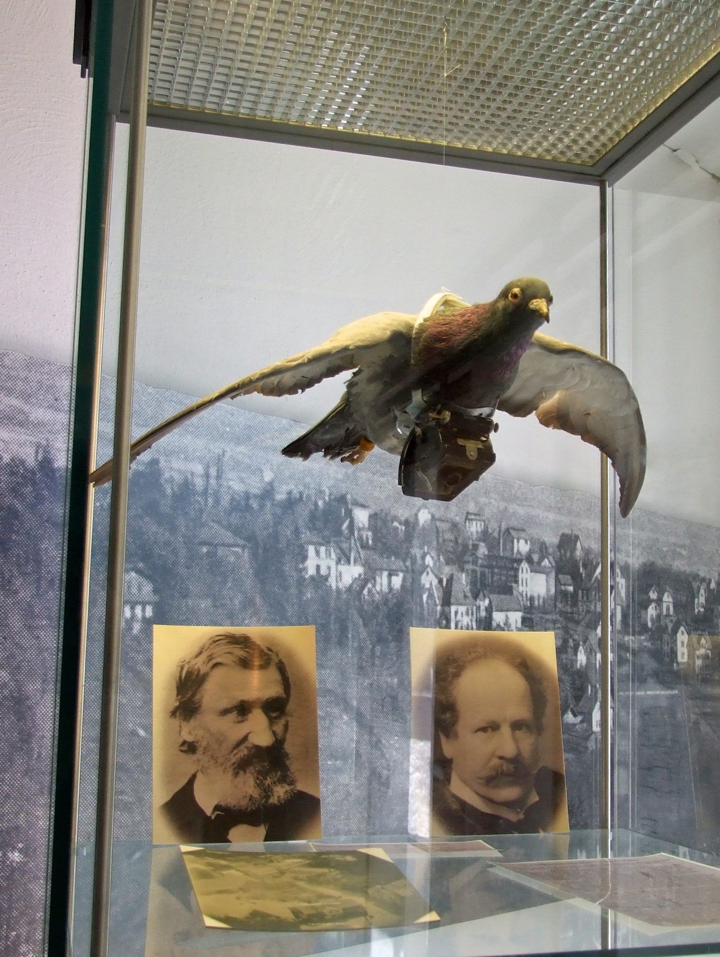 About pigeons in aerial photography and its inventor Julius Neubronner at Kronberg's Stadtmuseum